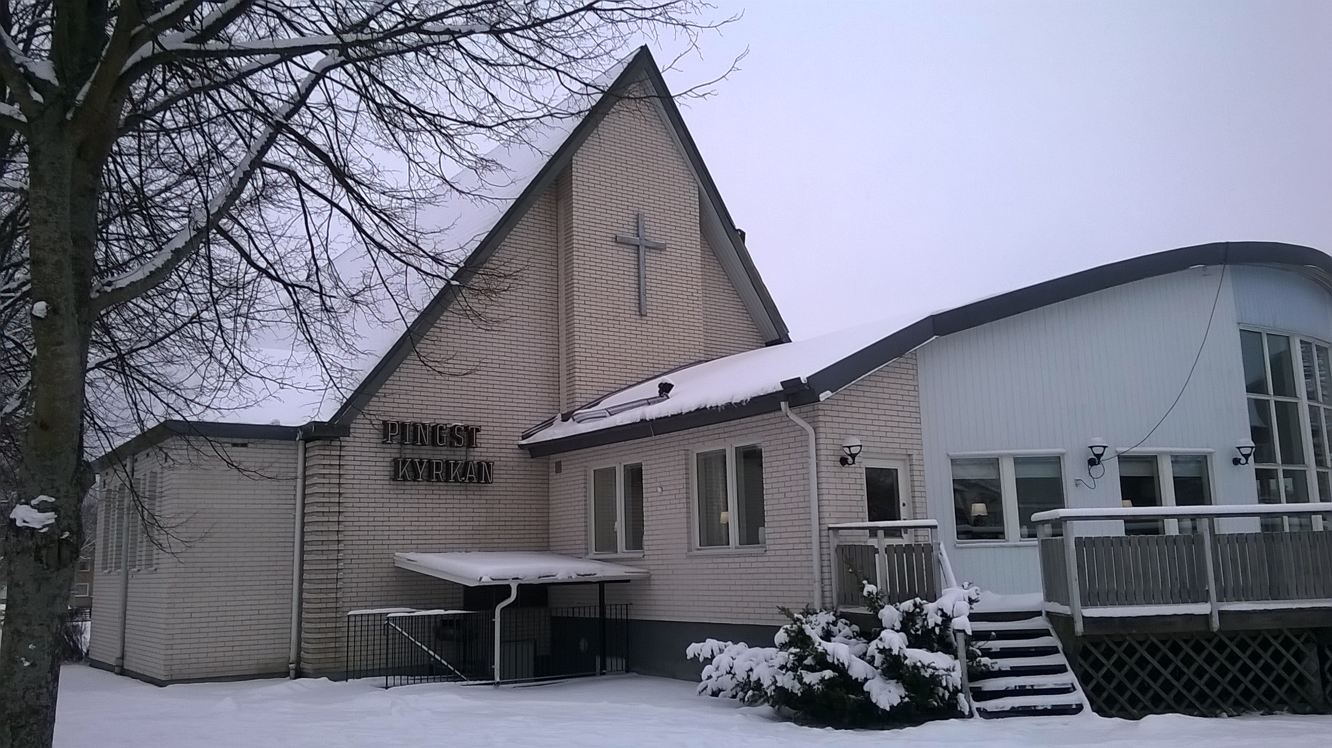 Habo Pentecostal Church 4 February 2015